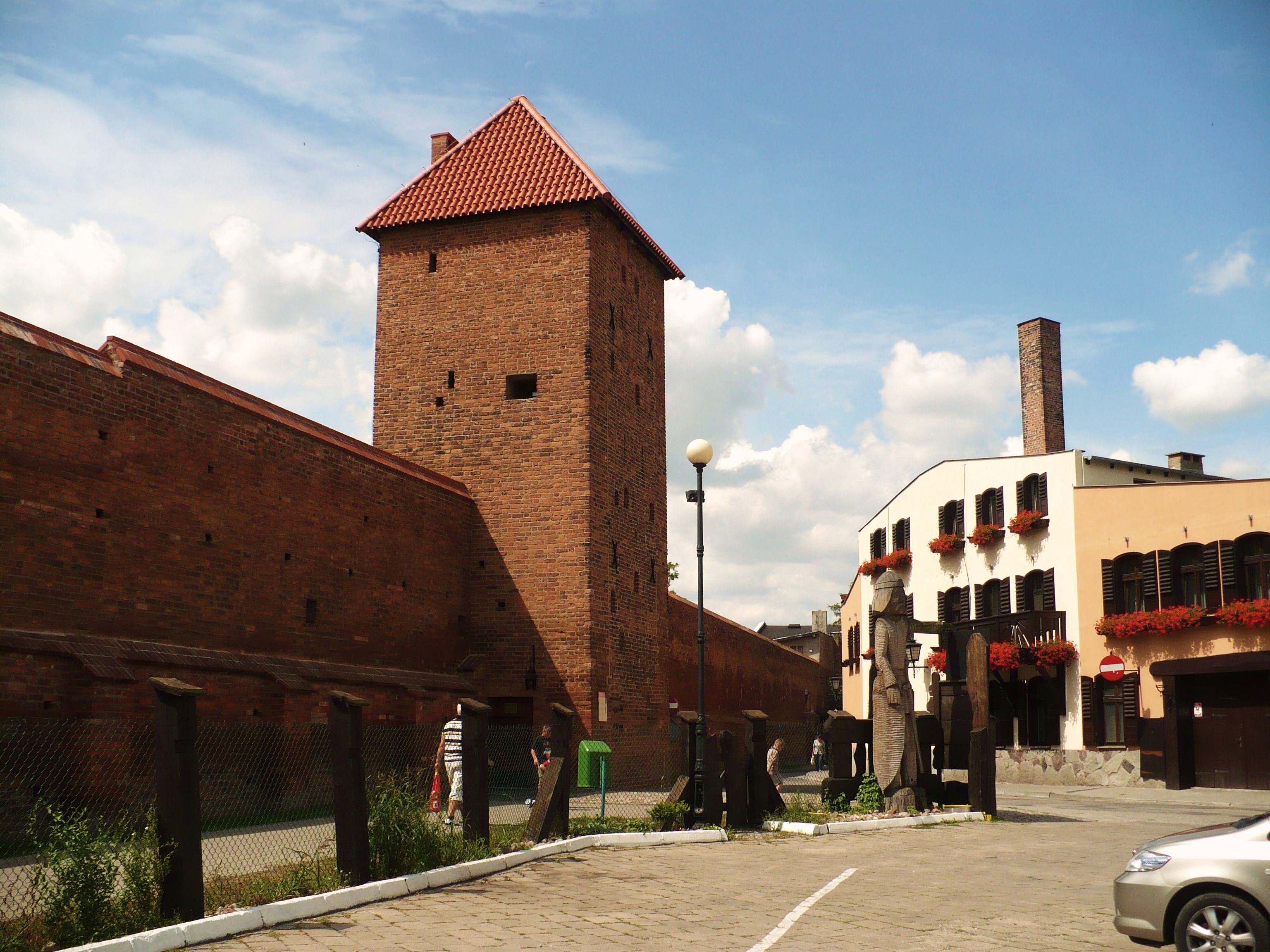 Chełmno, Poland. Medieval city walls and Prochowa (Gunpowder) Watchtower